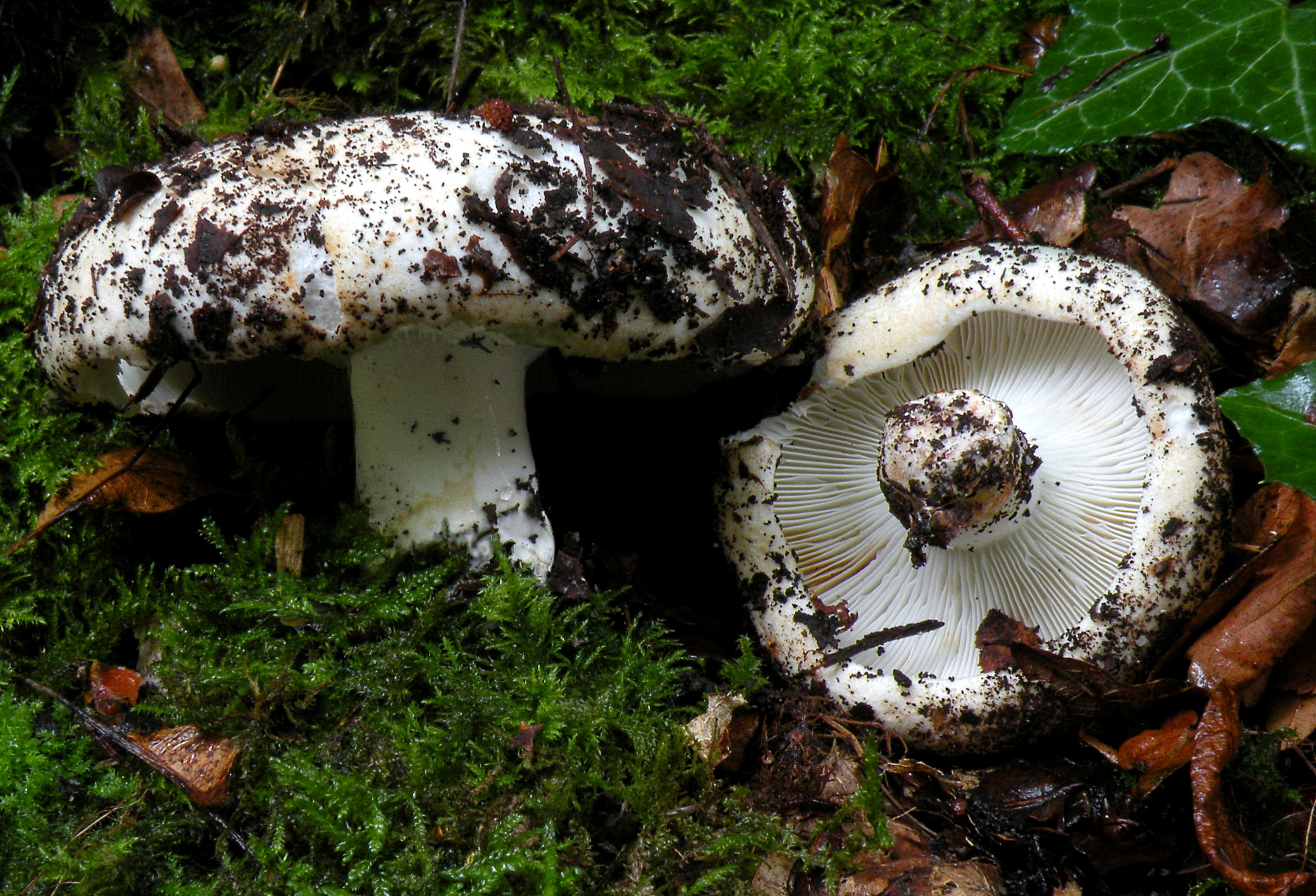 This digital image is the work of photographer Zonda Grattus, aka User:luridiformis. He is the sole owner and copyright holder of this image, and he agrees to publish it under the Own Work, Creative Commons Attribution 3.0 License.